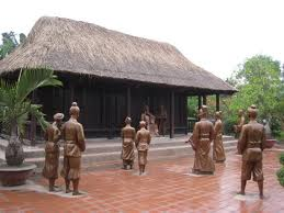 nhà dạy học.jpg